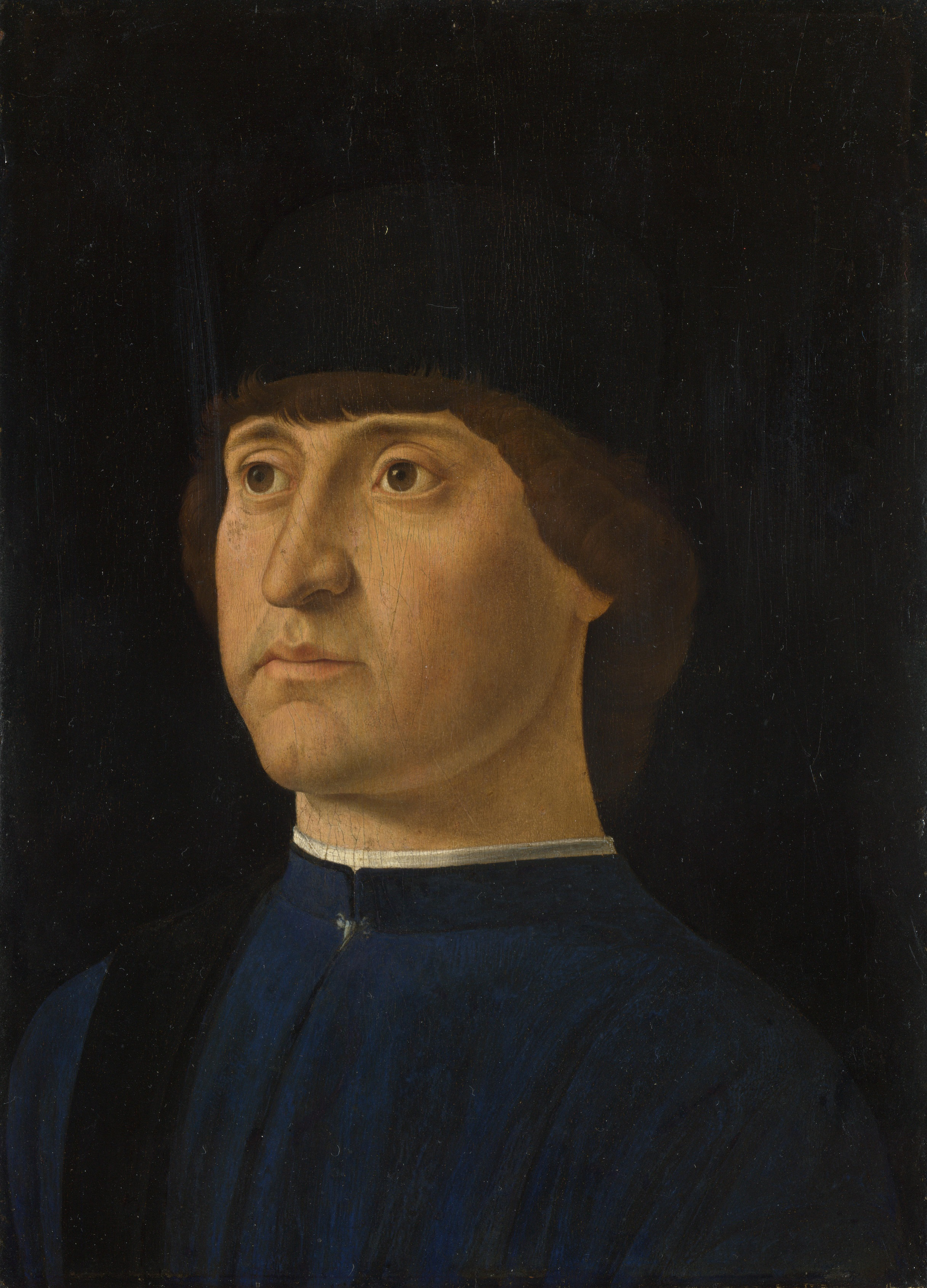 Portrait of a Man